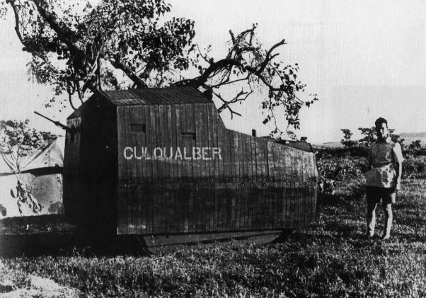 Italian armoured tractor used in the battle of Culqualber (1941).